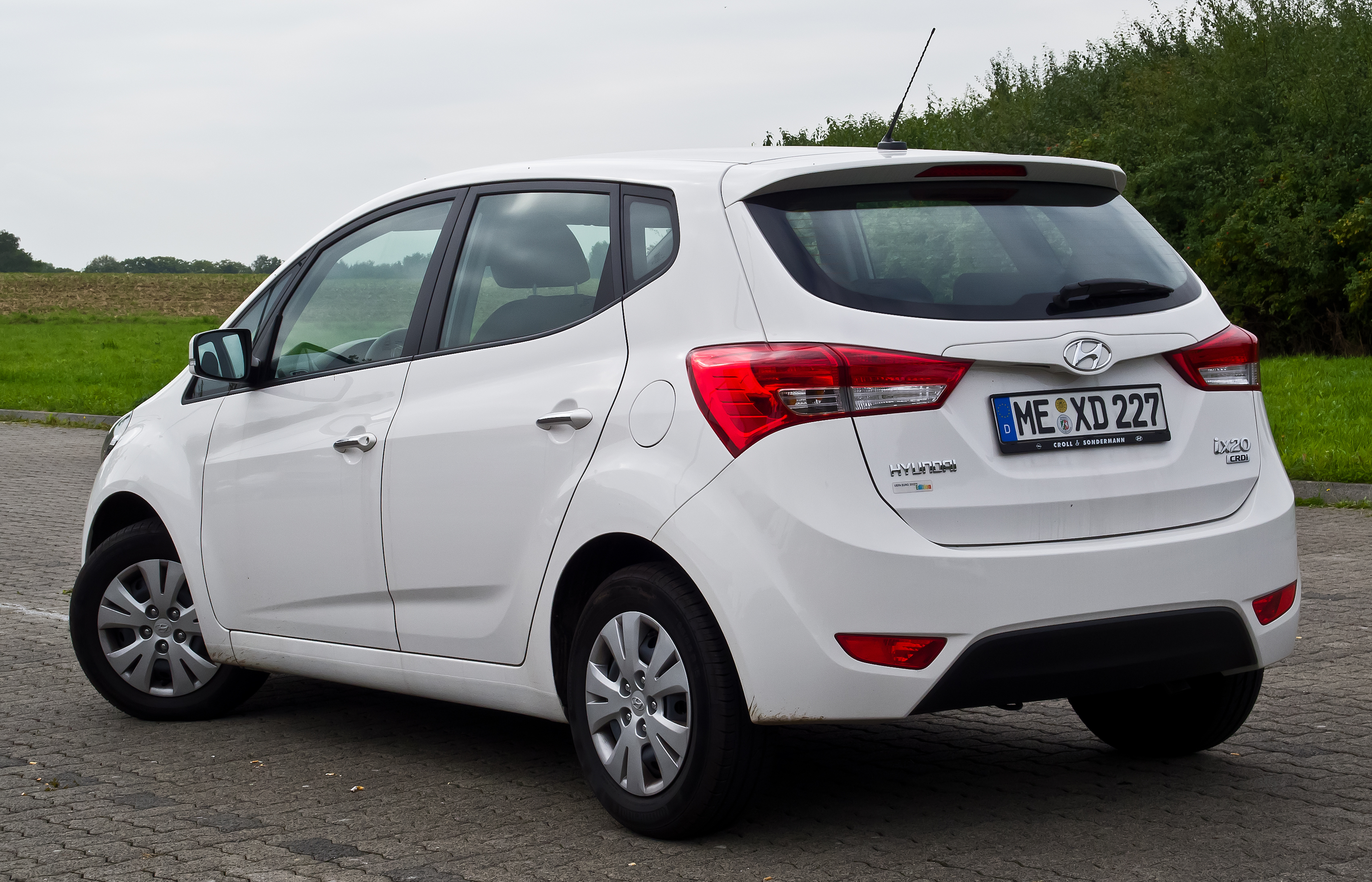 Hyundai ix20 1.6 CRDi UEFA EURO 2012 Edition